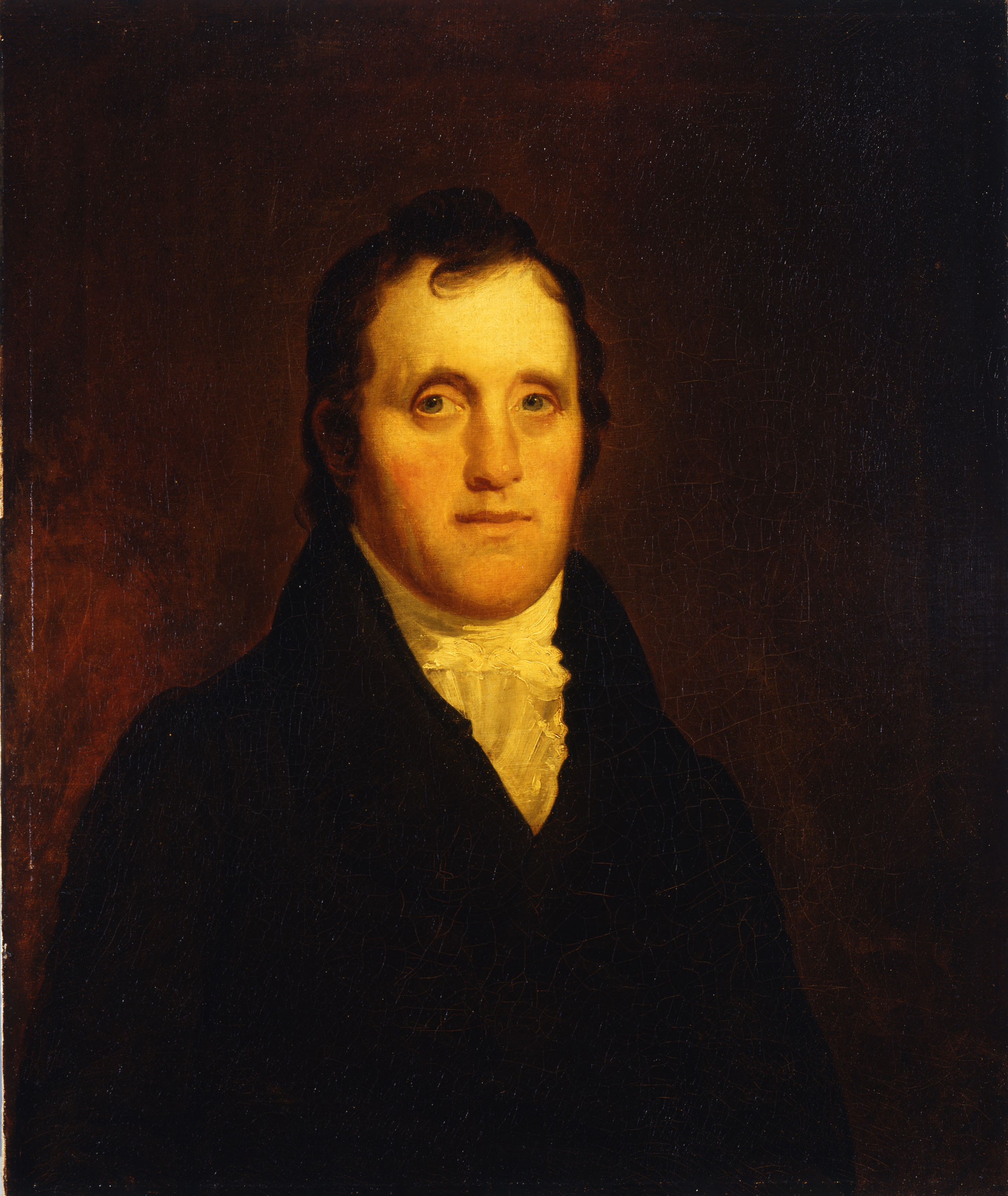 Official Gubernatorial portrait of New York Governor (and United States Vice President) Daniel D. Tompkins.